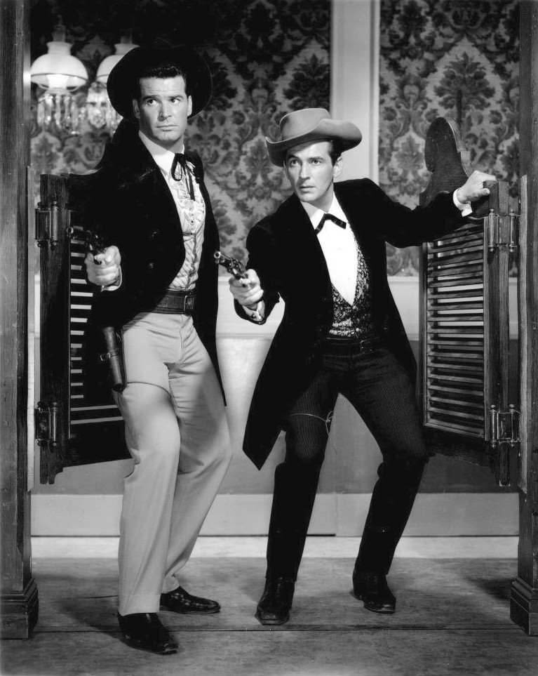 Photo of James Garner as Bart Maverick and Jack Kelly as Bret Maverick in the episode "Hostage" from the television program Maverick.